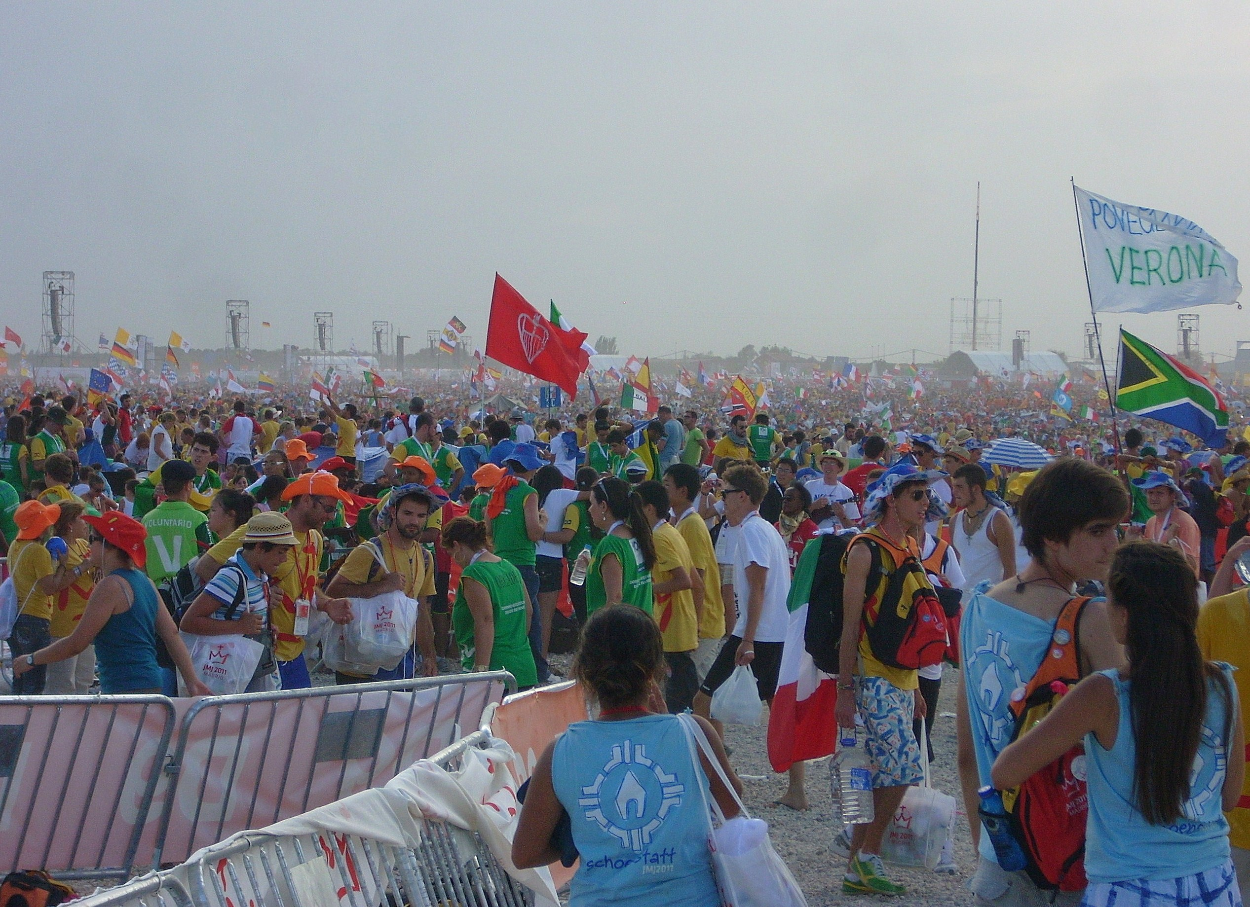 World Youth Day 2011 - Pilgrims at the airport of Cuatro Vientos